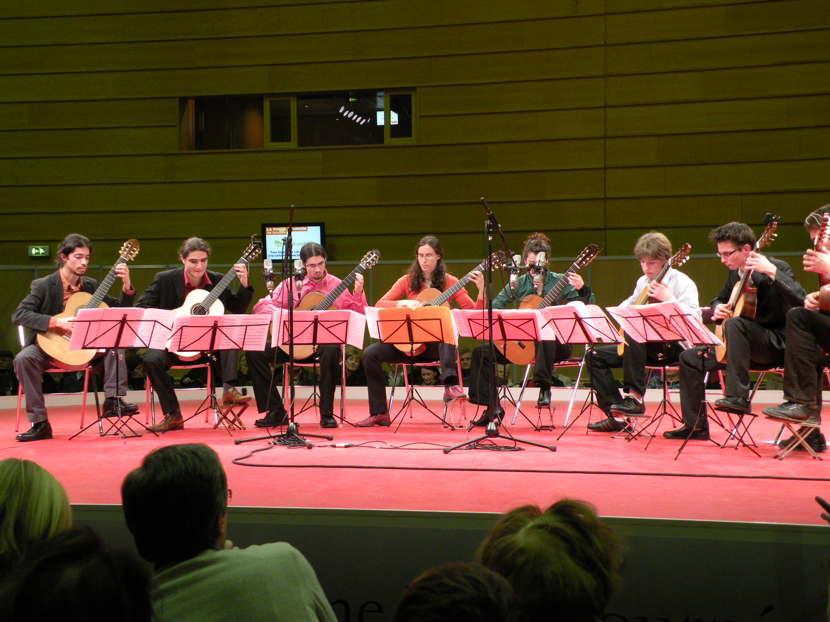 Guitar octuor of Nantes on 29 january 2009, during La Folle Journée in Nantes.